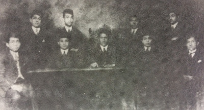 The 1925 officers of Perhimpunan Indonesia. Seated from left to right: Budiarto, Achmad Subardjo, Sukiman, Mohammad Hatta, and Sunario. Standing from left to right: Arnold Mononutu, Mohammad Nazif, Sartono, and Mohammad Jusuf